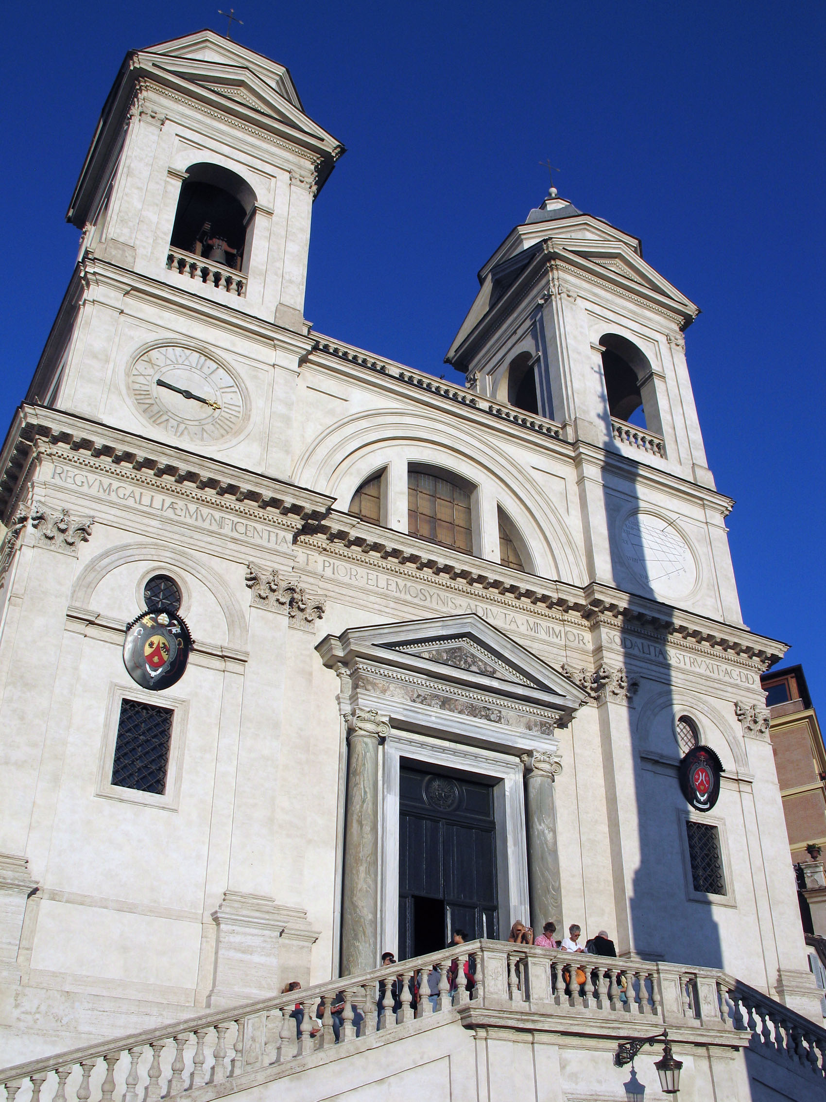 Santa Trinita dei Monti Rome